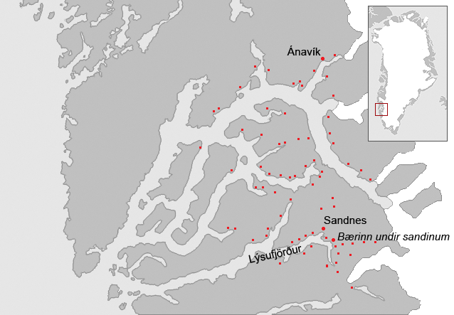 Map of the Western settlement of the Norse in medieval Greenland. The area is approximately the modern Municipality of Nuuk. The known farms and churches are identified on the map as some probable geographical names. The red dots indicate known farm ruins. The names are the modern Icelandic versions of the Norse names.